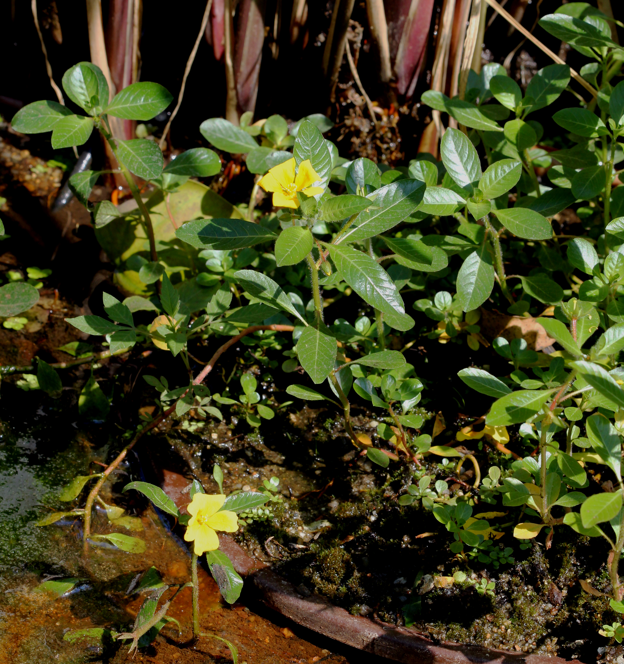 Water plant Ludwigia peploides, (Ludwigia peploides), the Botanical Gardens of Charles University, Prague, Czech Republic